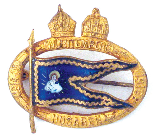 Cs. és kir. 6. huszárezred sapkajelvénye